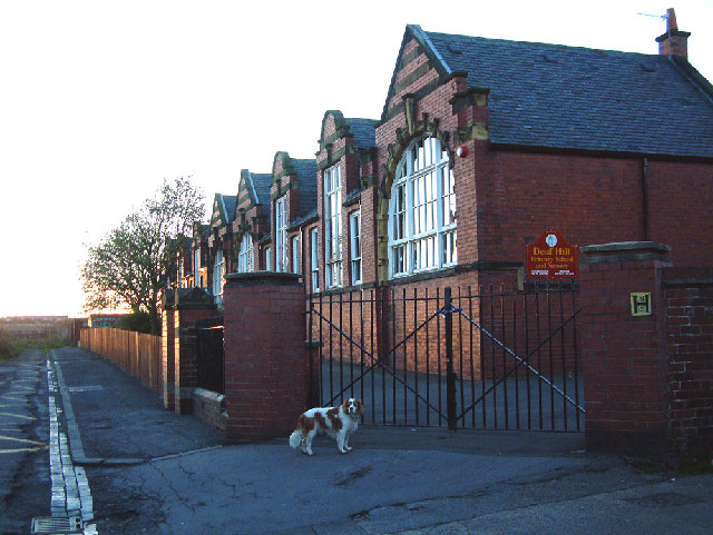 Deaf Hill Primary School. My dog Razz waiting for school to open